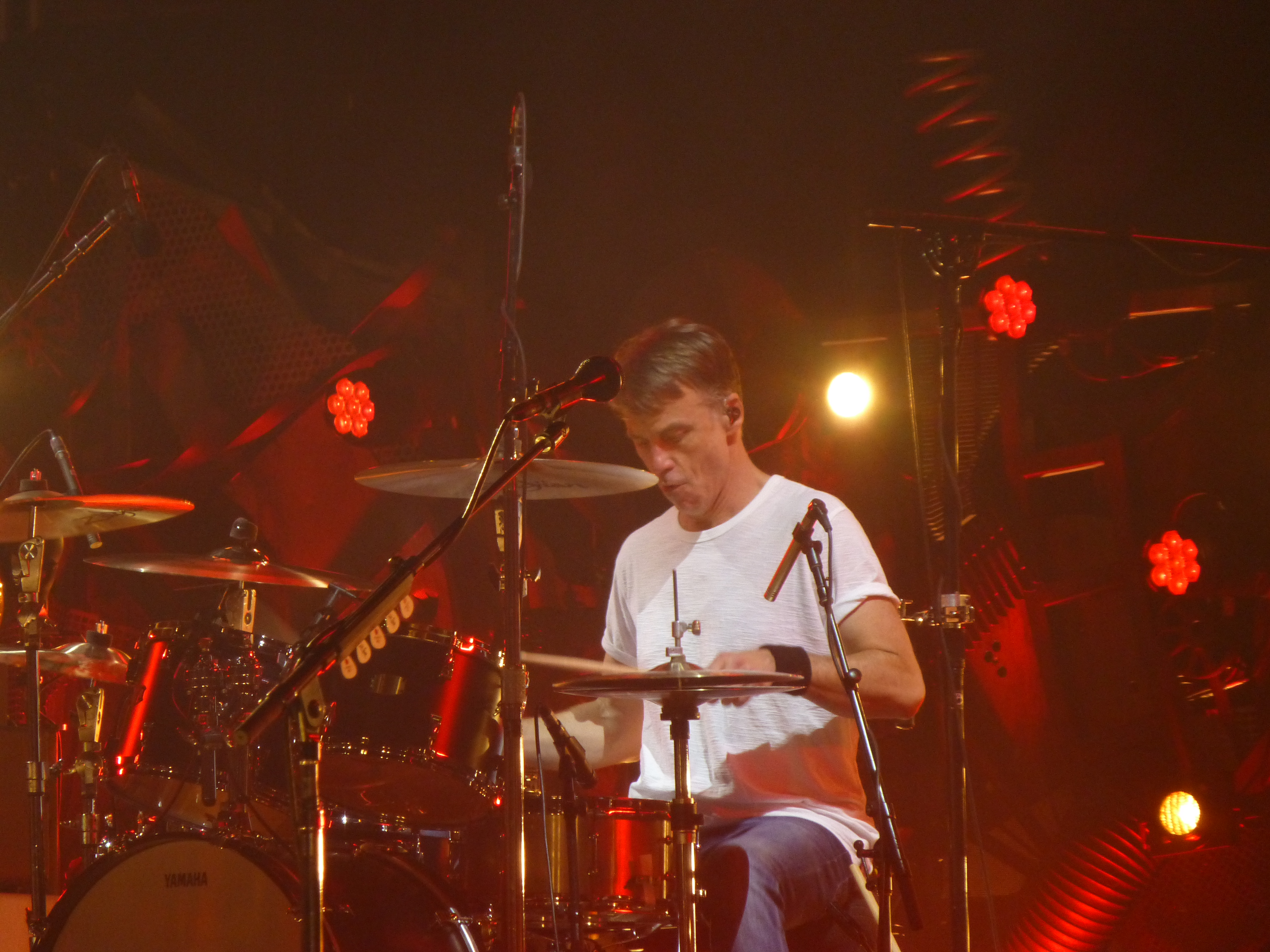 Matt Cameron of Pearl Jam in Prague in July 2018